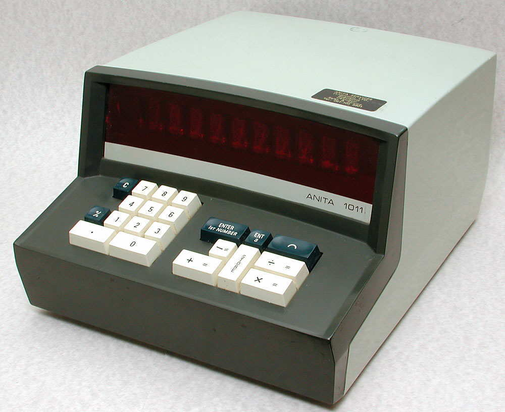 Anita 1011 calculator. Photograph taken by me of a machine in my collection.